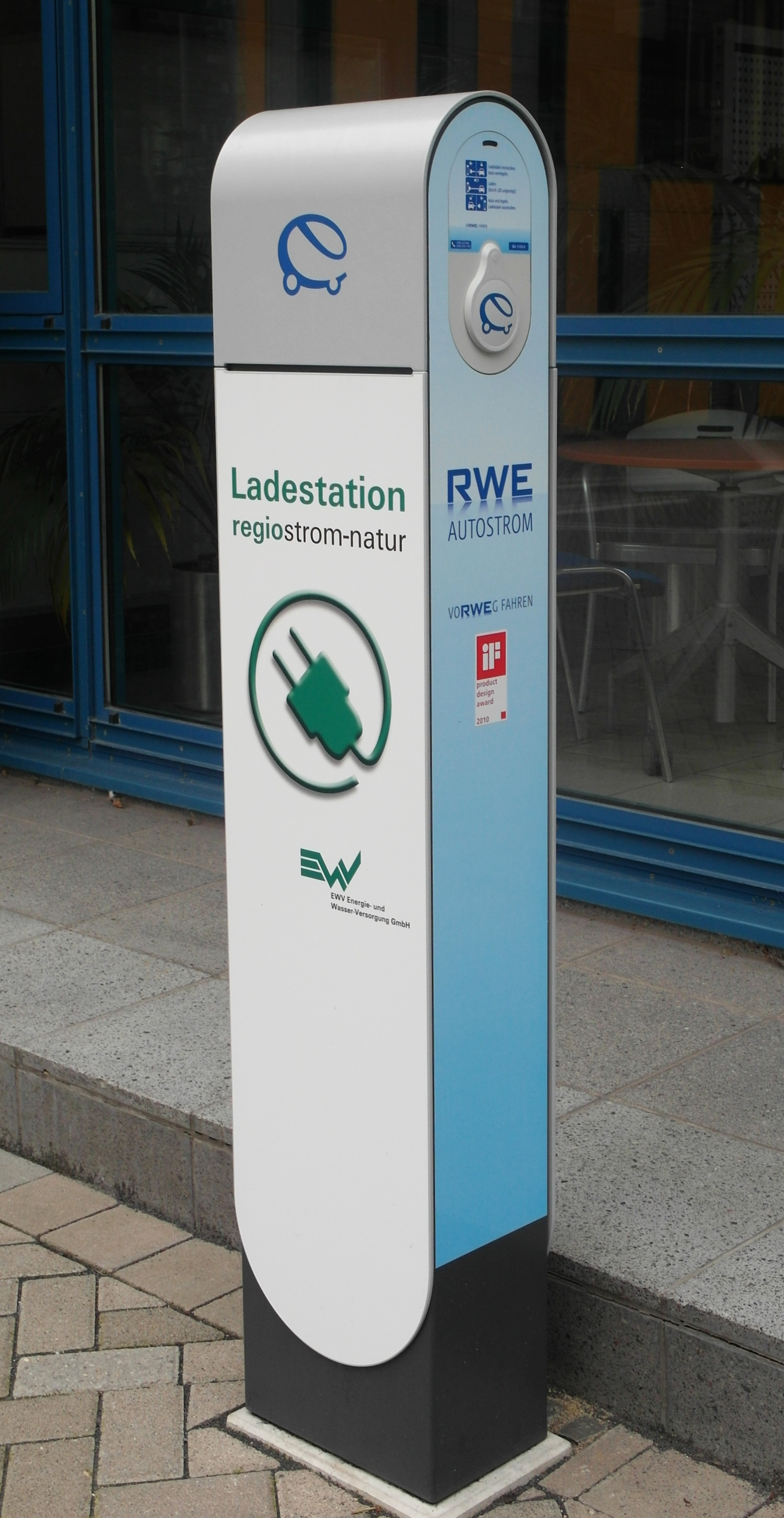 Electric vehicle charging station in front of a public building in Aachen, Germany